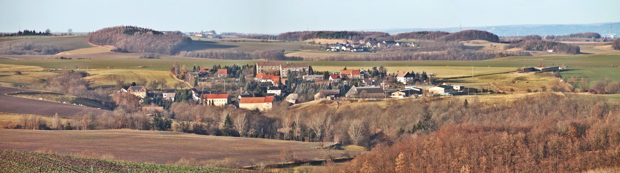 panorama of Biensdorf, a small village north of Liebstadt.